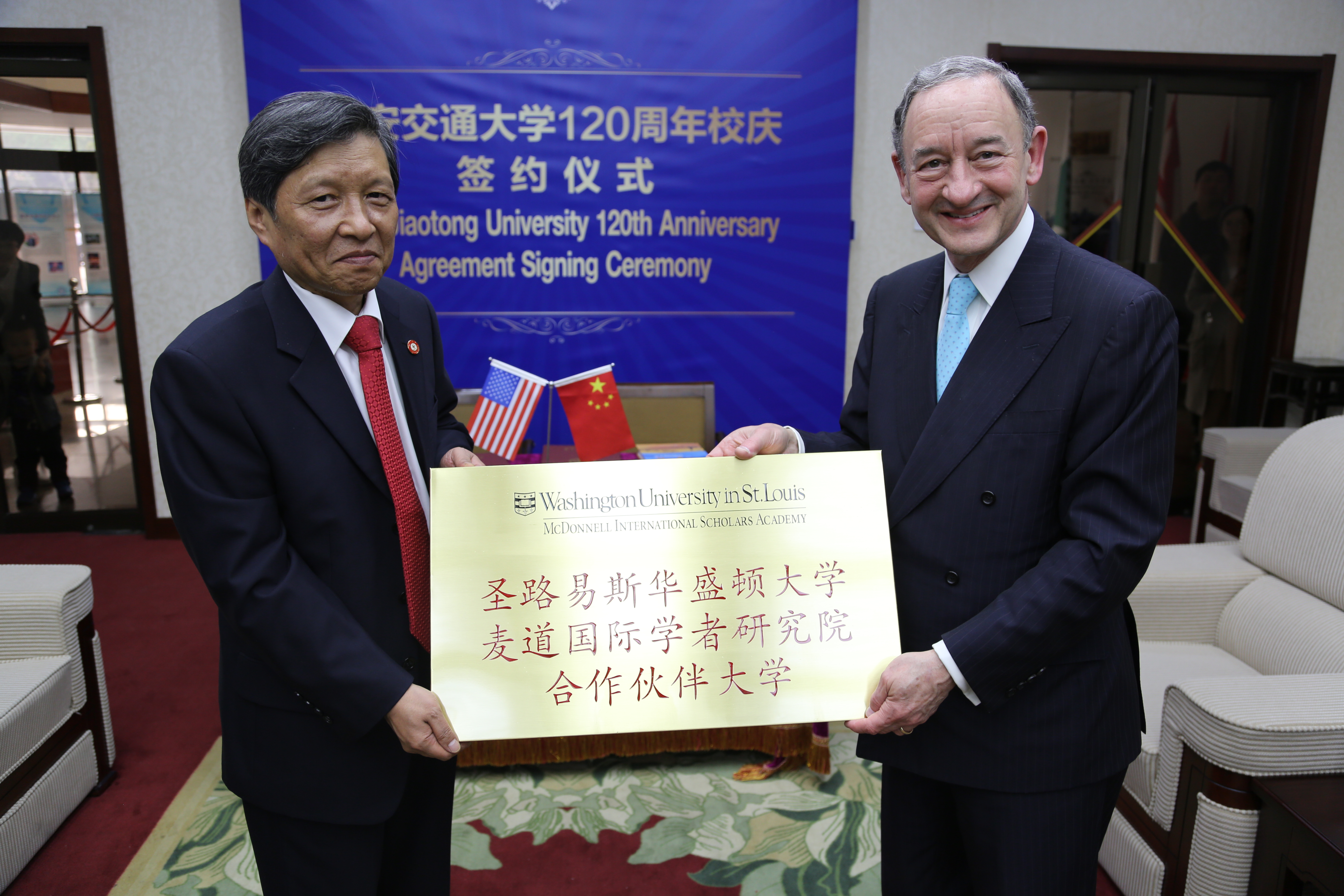 Washington University IN St. Louis joined in UASR